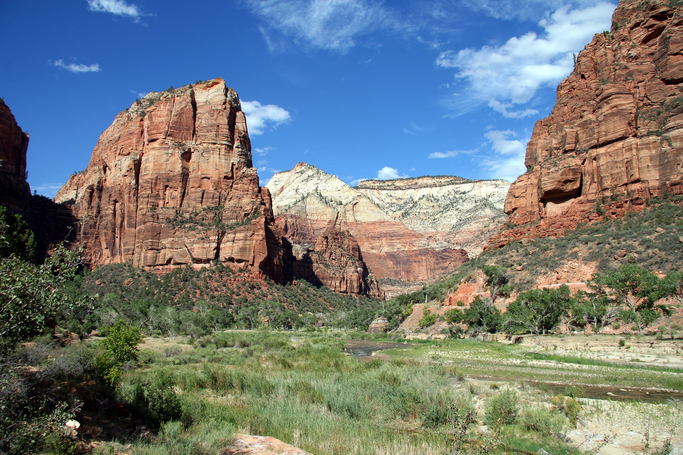 Zion National Park, Utah, USA